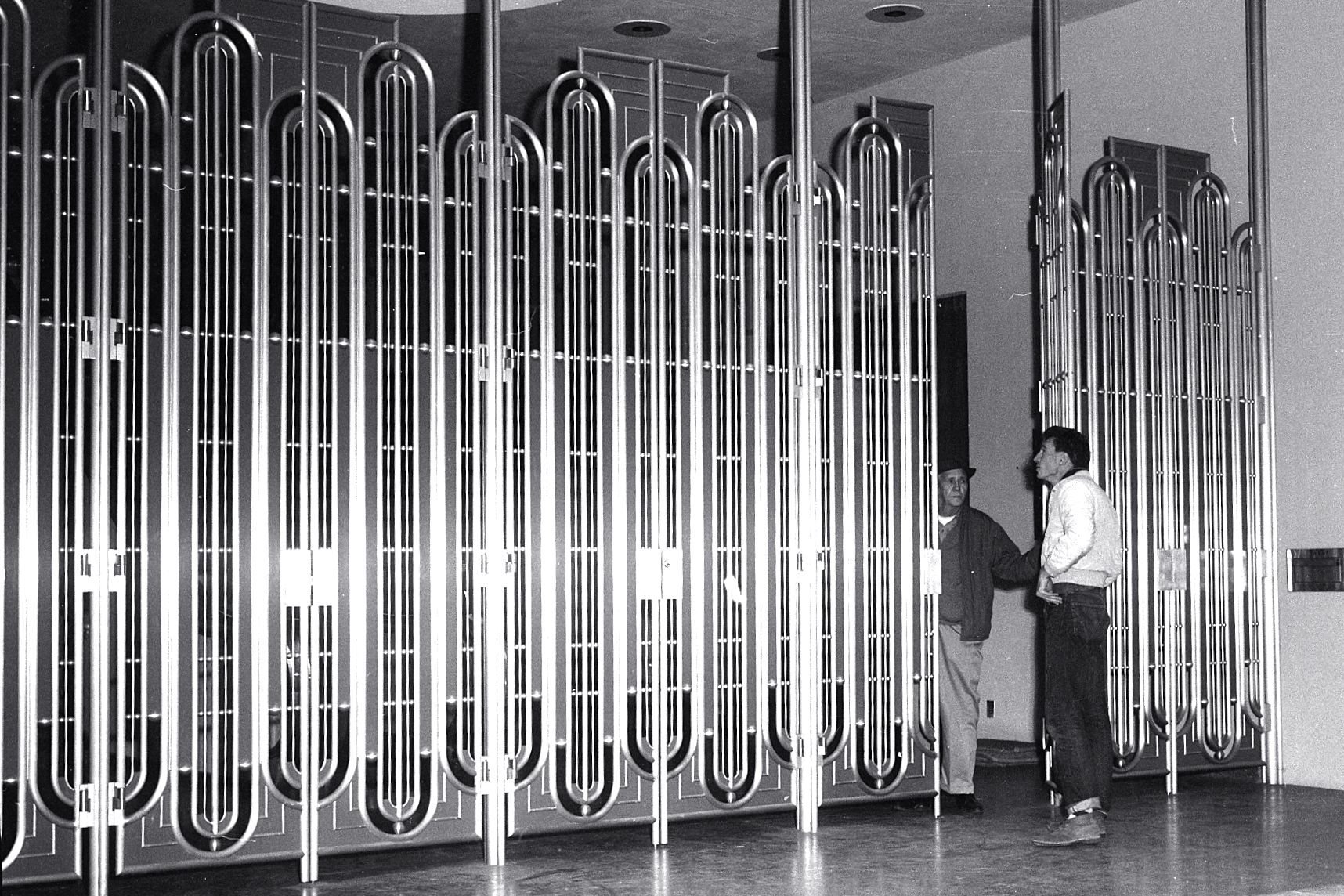 Entrance to Marin County Civic Center, 1963, with one visitor (white sweater) and a county employee. "Entrances are controlled by vertical grills of gold-anodized metal with rounded tops and bottoms, rather than doors."